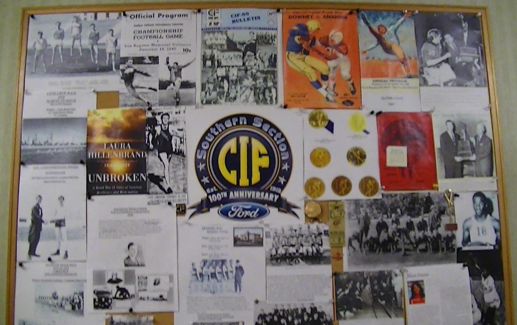 Historical news clippings about CIFSS sports